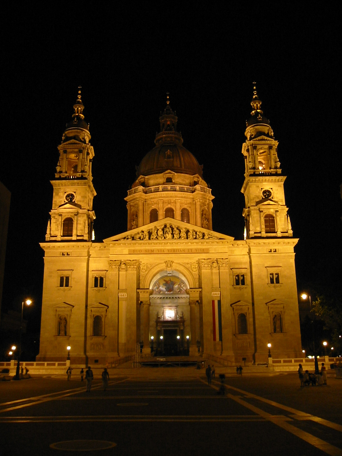 St Stephen's Basilica, Budapest, Hungary, is the city's largest ecclesiastical building.